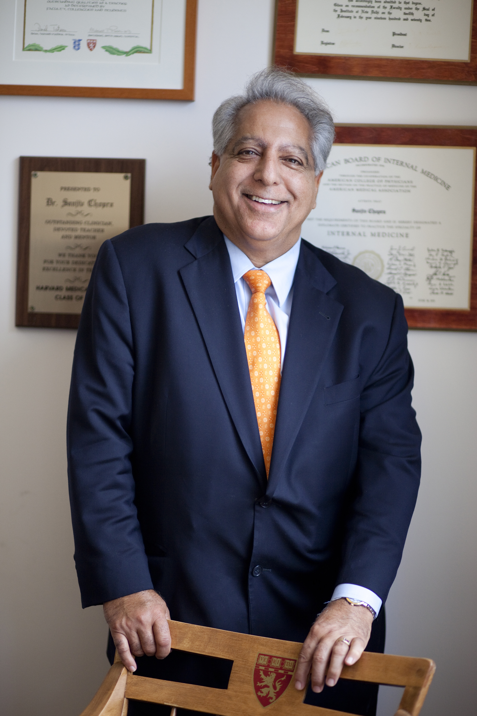 Sanjiv Chopra, M.B.B.S, M.A.C.P is an Indian-born American physician, Professor of Medicine and Faculty Dean for Continuing Medical Education at Harvard Medical School, Senior Consultant in Hepatology at Beth Israel Deaconess Medical Center, accomplished author, and expert on leadership.